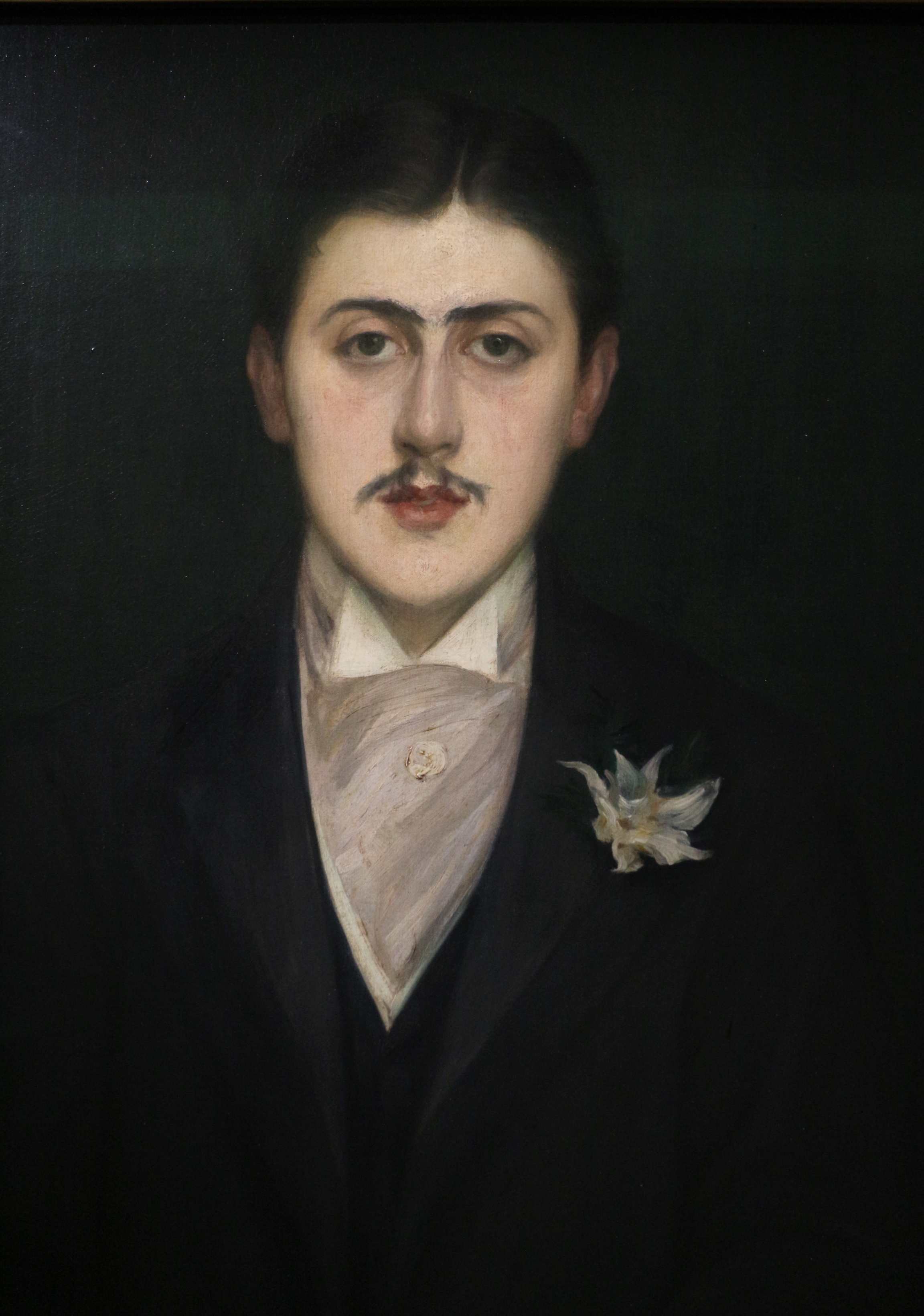 Paintings in Musée d'Orsay